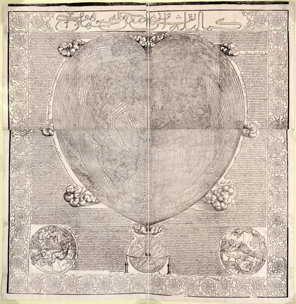 This 1795 impression of a woodcut based on Oronce Fine’s 1534 heart-shaped map of the world is attributed to a cartographer from Tunis named Hajji Ahmad. At first glance, the map’s accompanying Ottoman Turkish text appears to be a captivating, first-person account of Hajji Ahmad’s remarkable odyssey across the Mediterranean. Upon closer inspection, cartography scholars have questioned the map’s authenticity and authorship. The text contains errors, and European sources such as Giovanni Battista Ramusio’s Delle Navigationi et Viaggi (Travels and voyages) appear to have influenced the geographical details of the map. Most likely it was printed for commercial purposes by a group of Venetian cartographers that included Nicolò Cambi and Michele Membré, the official Turkish translator for the Venetian Republic. Whatever its true provenance, the map highlights the remarkable cross-cultural influences in the early modern Mediterranean world, especially among Tunis, Venice, and Istanbul. World maps